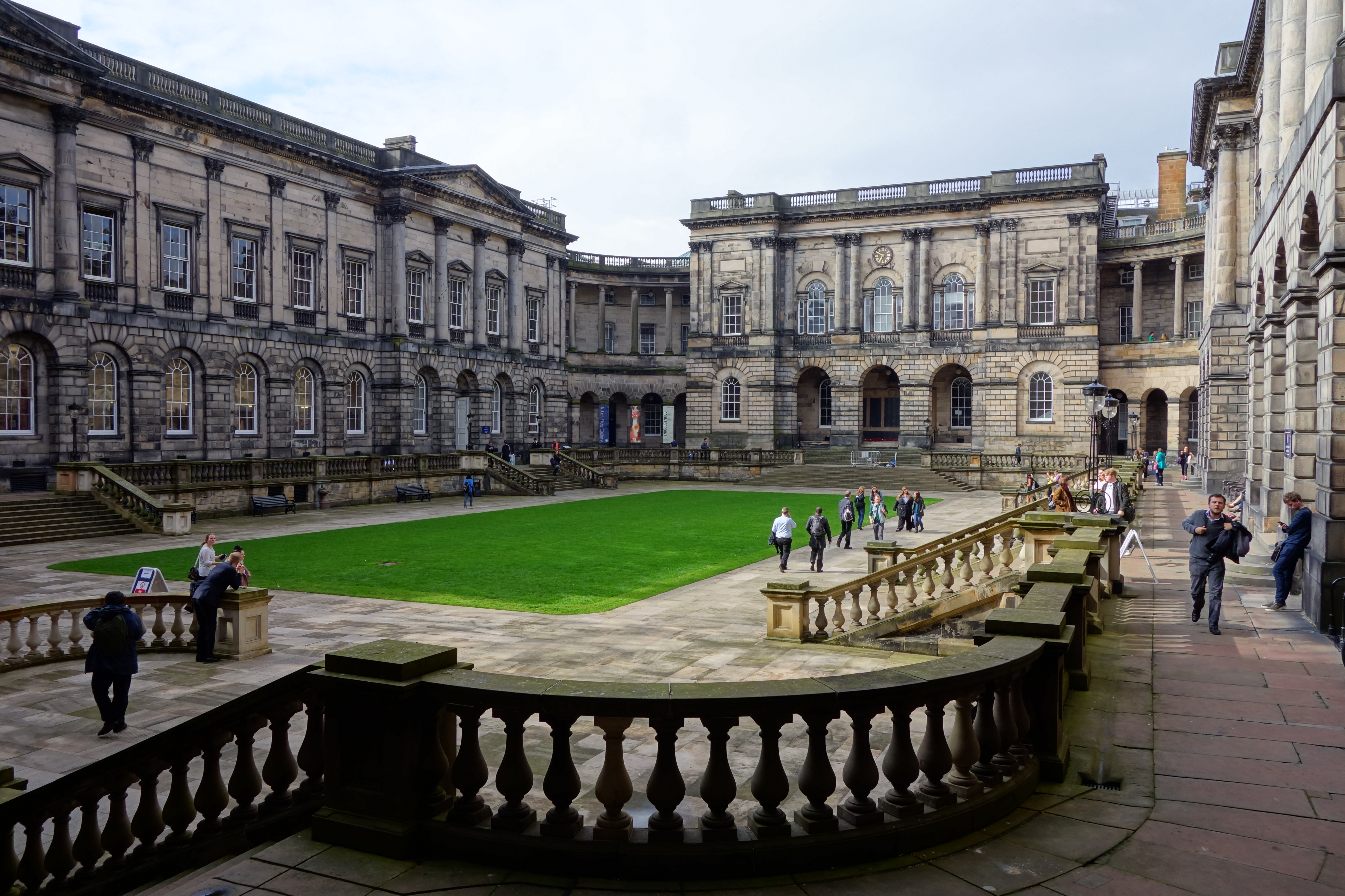 old college, University of Edinburgh